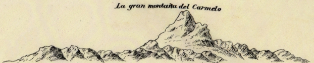 Draw of the Mount Baker, when it was discovered in 1790 by the Spanish Ensign Manuel Quimper and Gonzalo Lopez de Haro. They named it "Gran montaña del Carmelo" (great mountain of the Carmel)